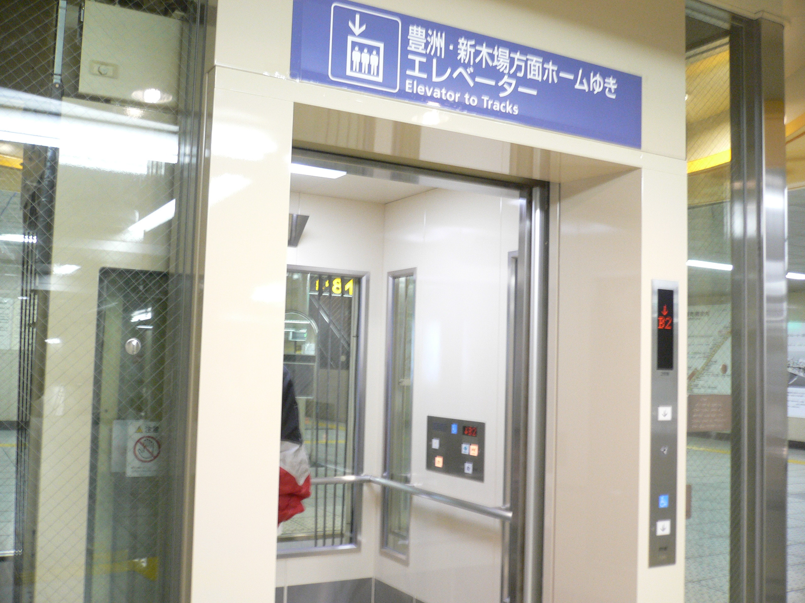 Ginza 1 chome Station (銀座一丁目駅), Chuō W, Tokyo M.